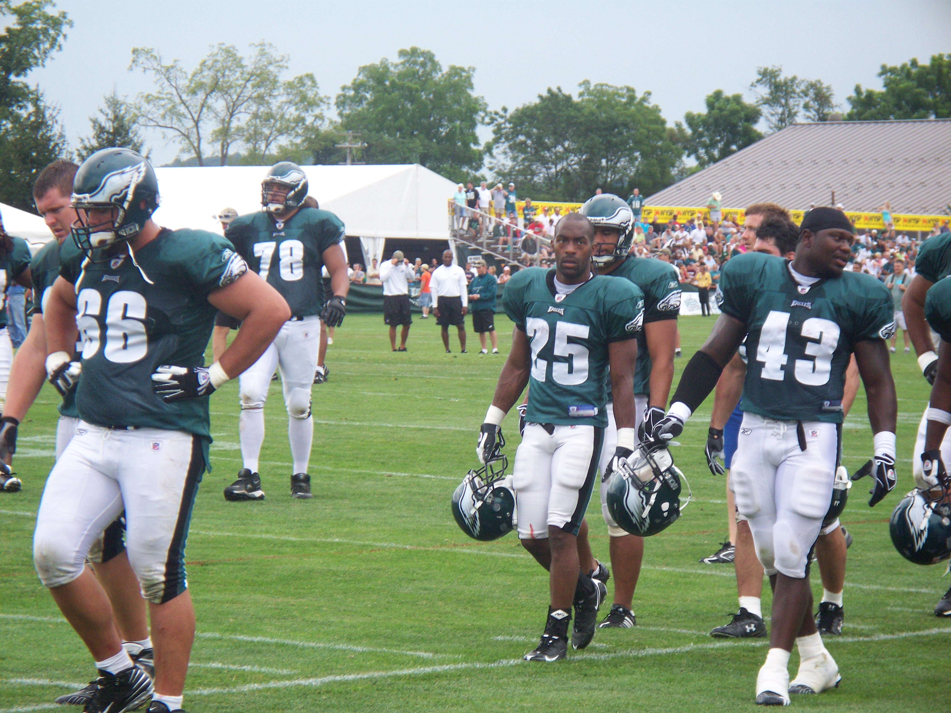 L-R: Mike Gibson, Dallas Reynolds (#66), Fenuki Tupou (#78), Lorenzo Booker (#25), Leonard Weaver (#43)